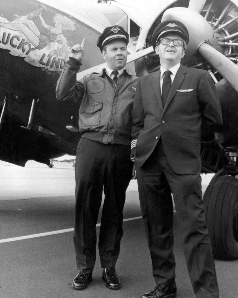 Photo of Tim Conway and Joe Flynn from the television show The Tim Conway Show. Conway played the pilot of a small airline with Flynn playing his boss. The two actors also worked together in McHale's Navy.